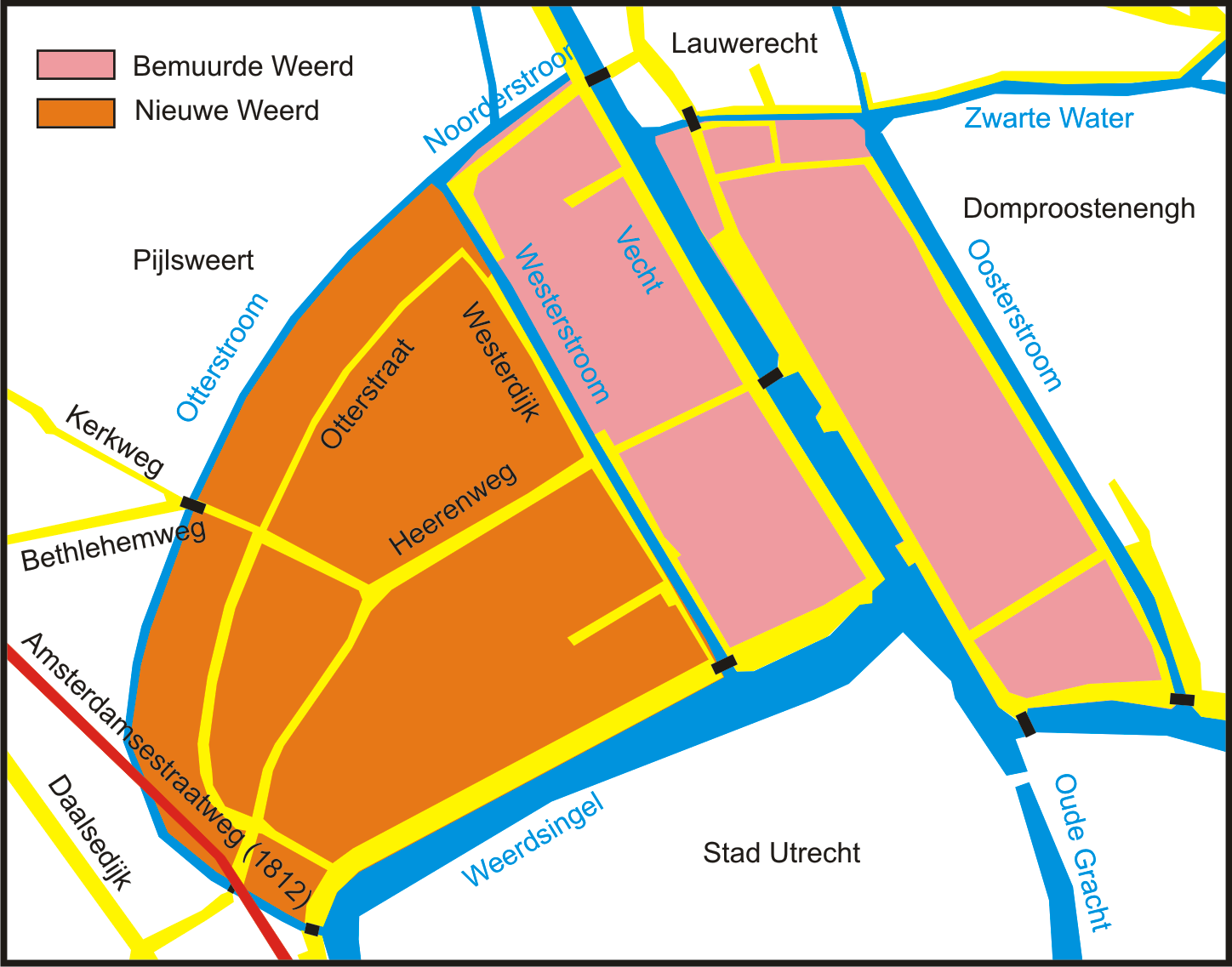 map of the Bemuurde Weer and the Nieuwe Weerd near Utrecht